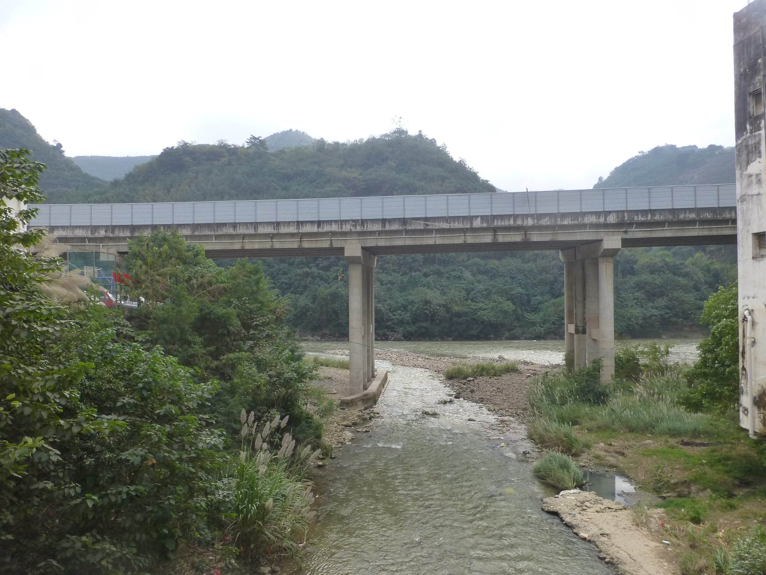 The Kai-He Expressway (G8011) crossing the Xinxian River at its confluence with the Red River (seen in the background) in Lianhuatan Township, Hekou County, Yunnan.